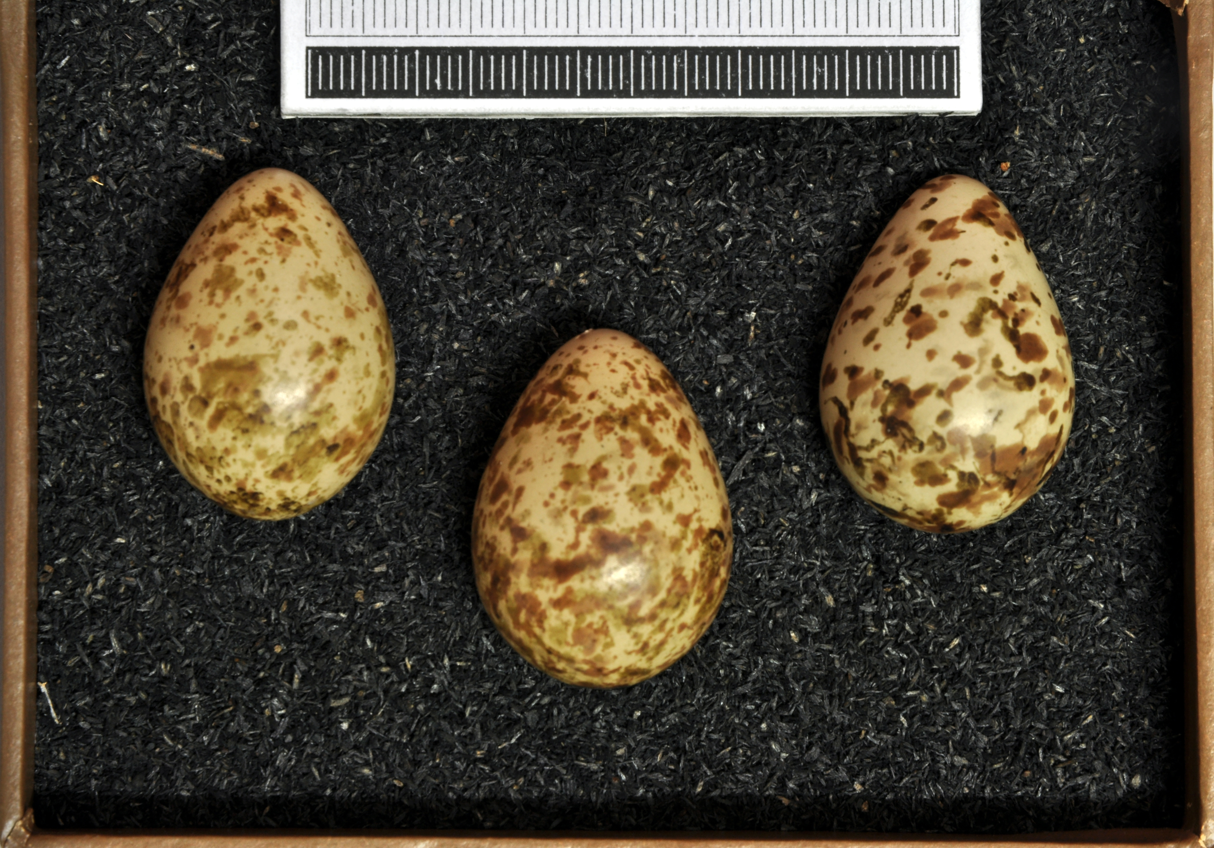 Dunlin Calidris alpina , egg, Coll. Museum Wiesbaden